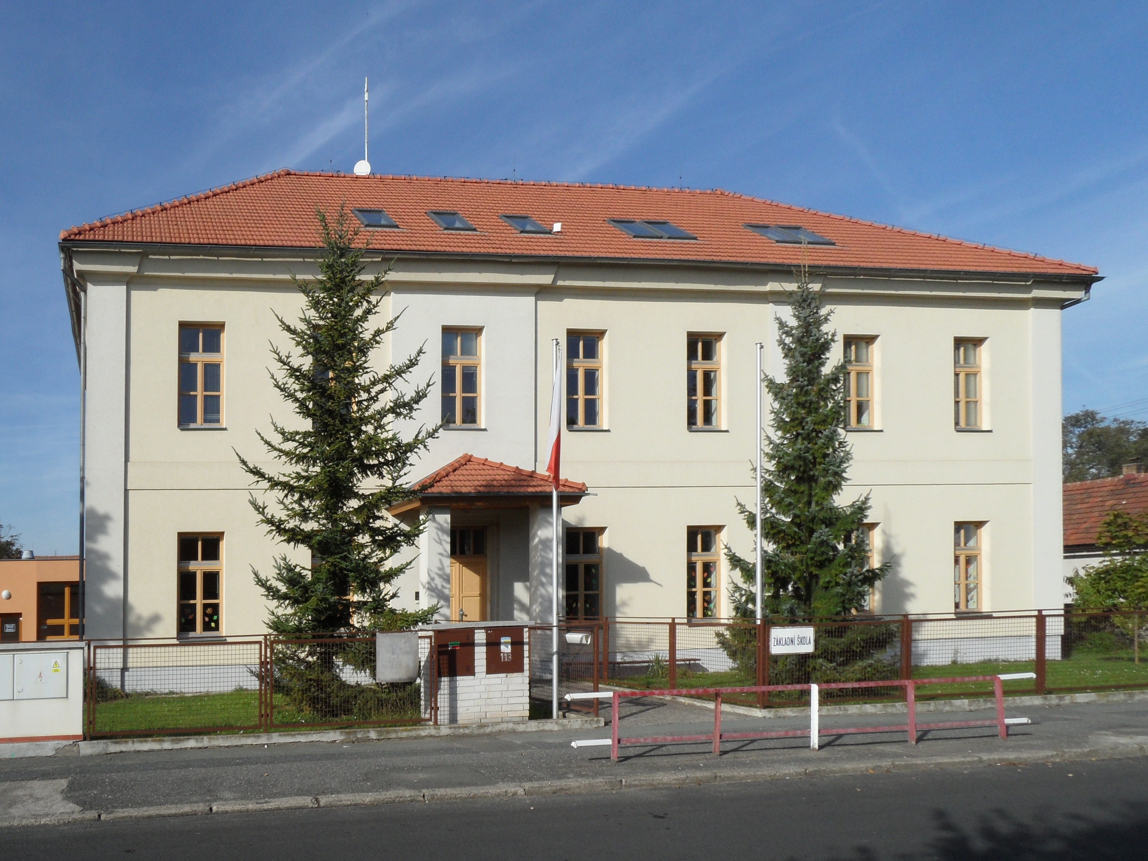 Krakovany B. Building of Primary School, Kolín District, the Czech Republic.